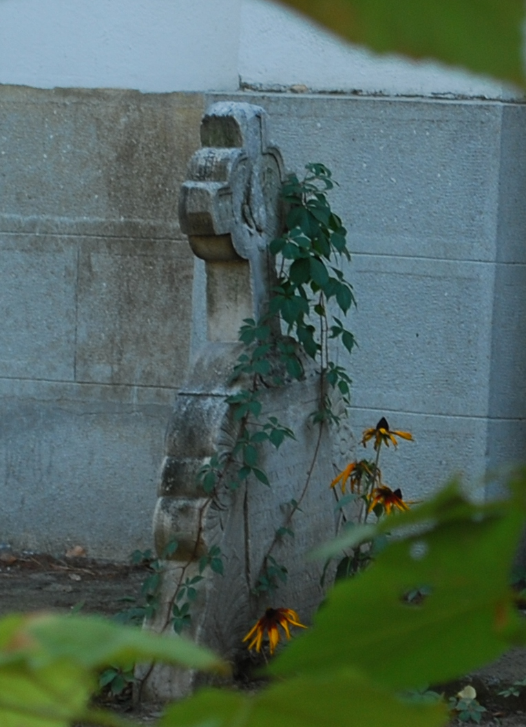 Anton Pann's tombstone near the Lucaci church, Bucharest, RomaniaRomână: Piatra de mormânt a lui Anton Pann în curtea bisericii Lucaci, Bucureşti, România